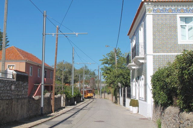 Sintra tram no.7 in the streets of Colares (Rua da Cochicha)